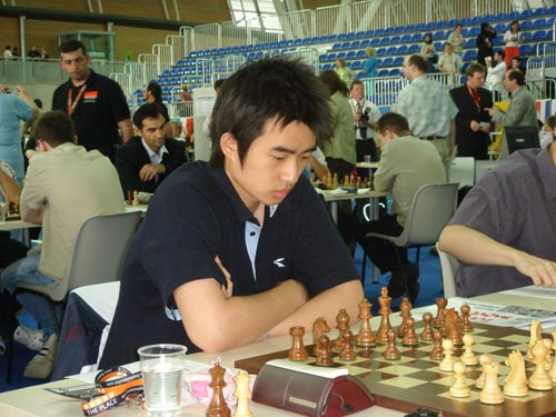 GM Zhao Jun, Chinese chess player, at the 2006 37th Chess Olympiad in Turin, Italy